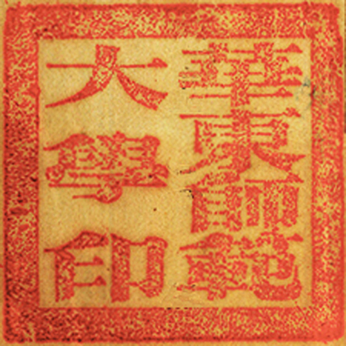 Old Seal of East China Normal University used in the 1950s